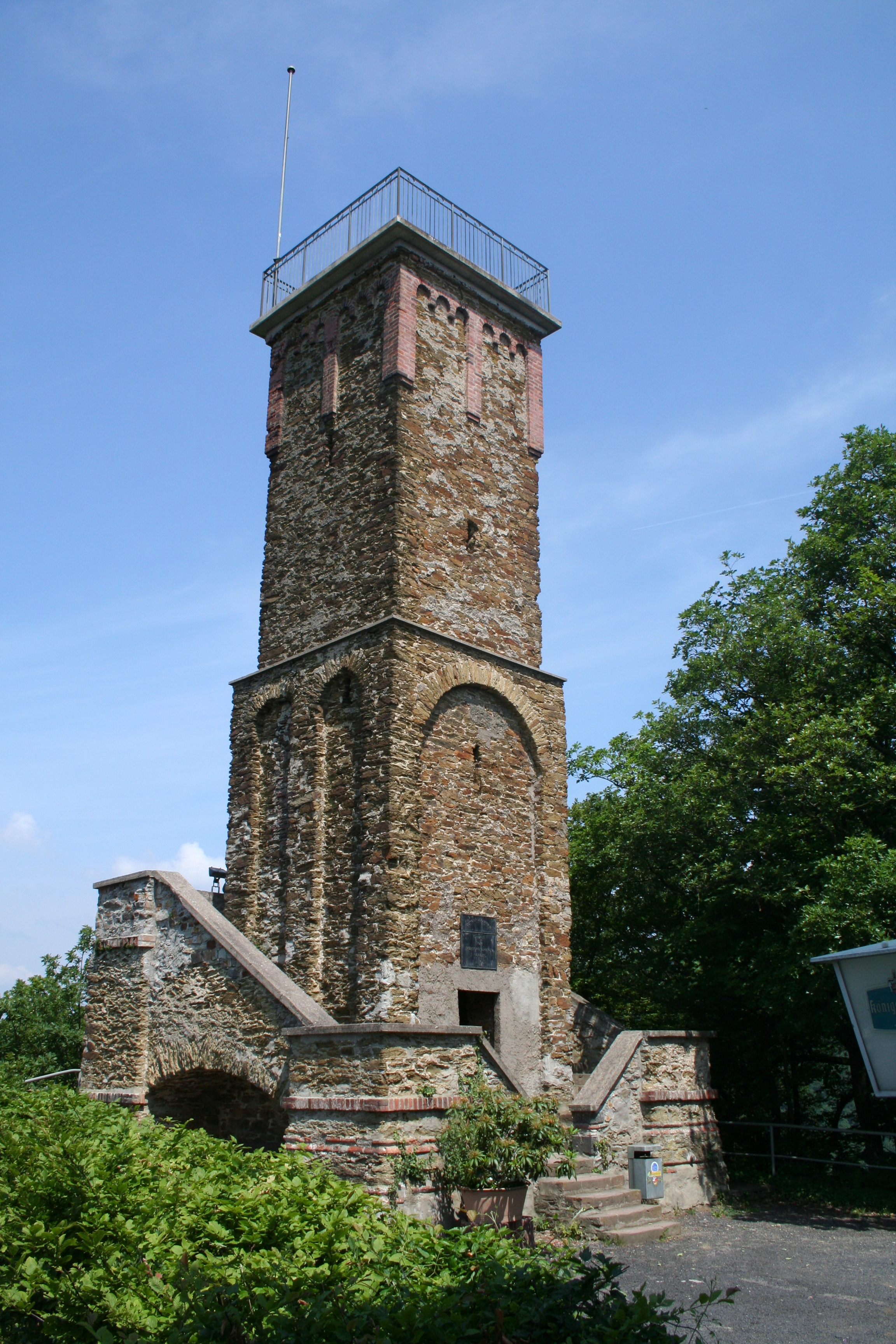 Concordiaturm in Bad Ems 07.06.2007